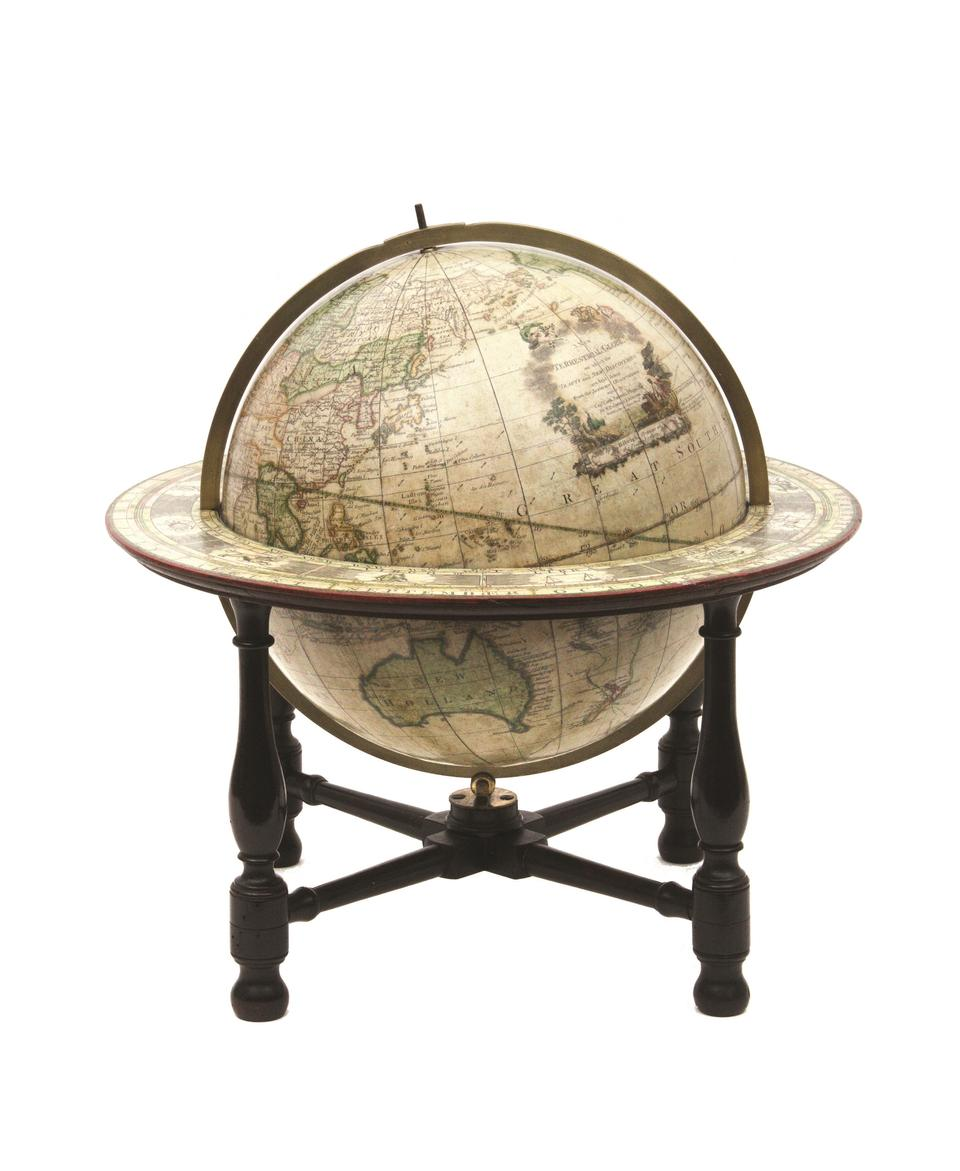 A terrestial globe on which the tracts and discoveries are laid down from the accurate observations made by Capts Cook, Furneux, Phipps, published 1782 / globe by John Newton ; cartography by William Palmer, held by the State Library of New South Wales